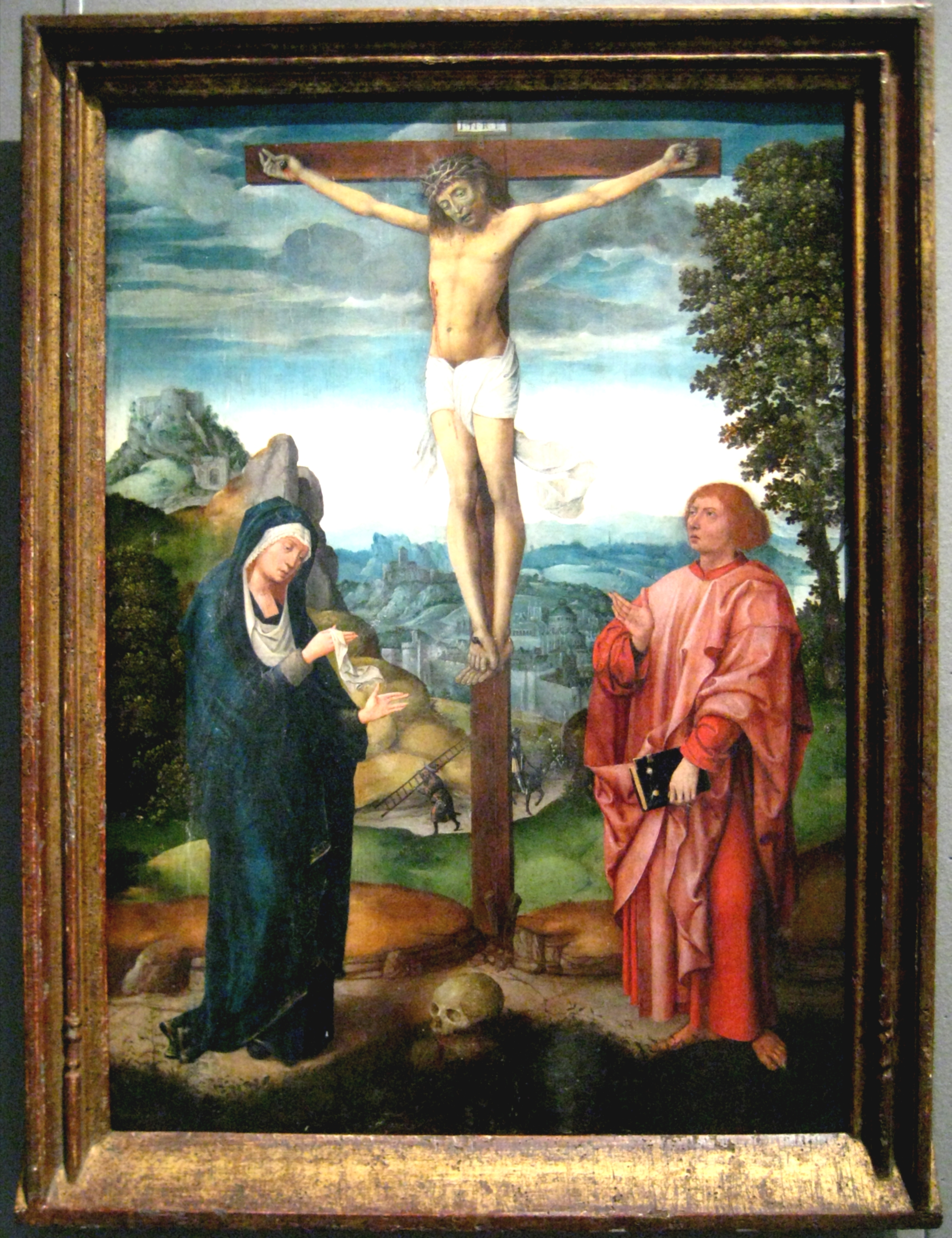 School Bruges. Circle Memling. Crucifixion with the Virgin Mary and St. John the Theologian.